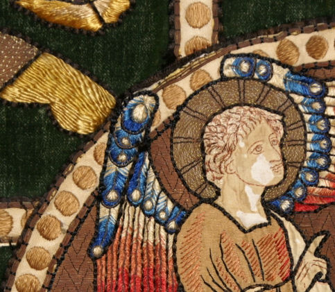 Detail from Annunciation roundel at the centre of Victorian altar frontal Image:Embroidery Victorian Altar Frontal Berkshire.jpg in All Saints' parish church, North Moreton, Oxfordshire (formerly Berkshire).